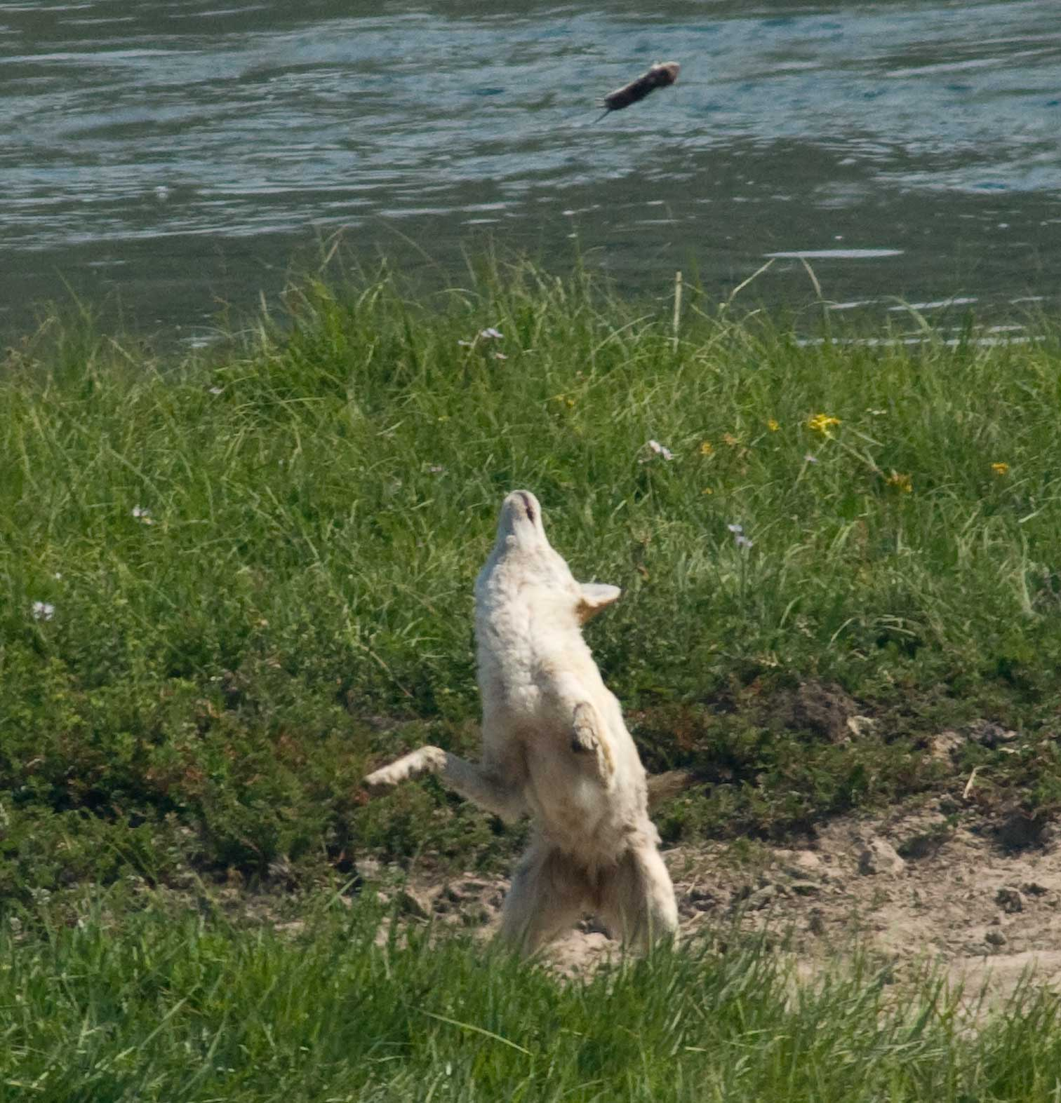 Coyote tossing rodent, Yellowstone National Park